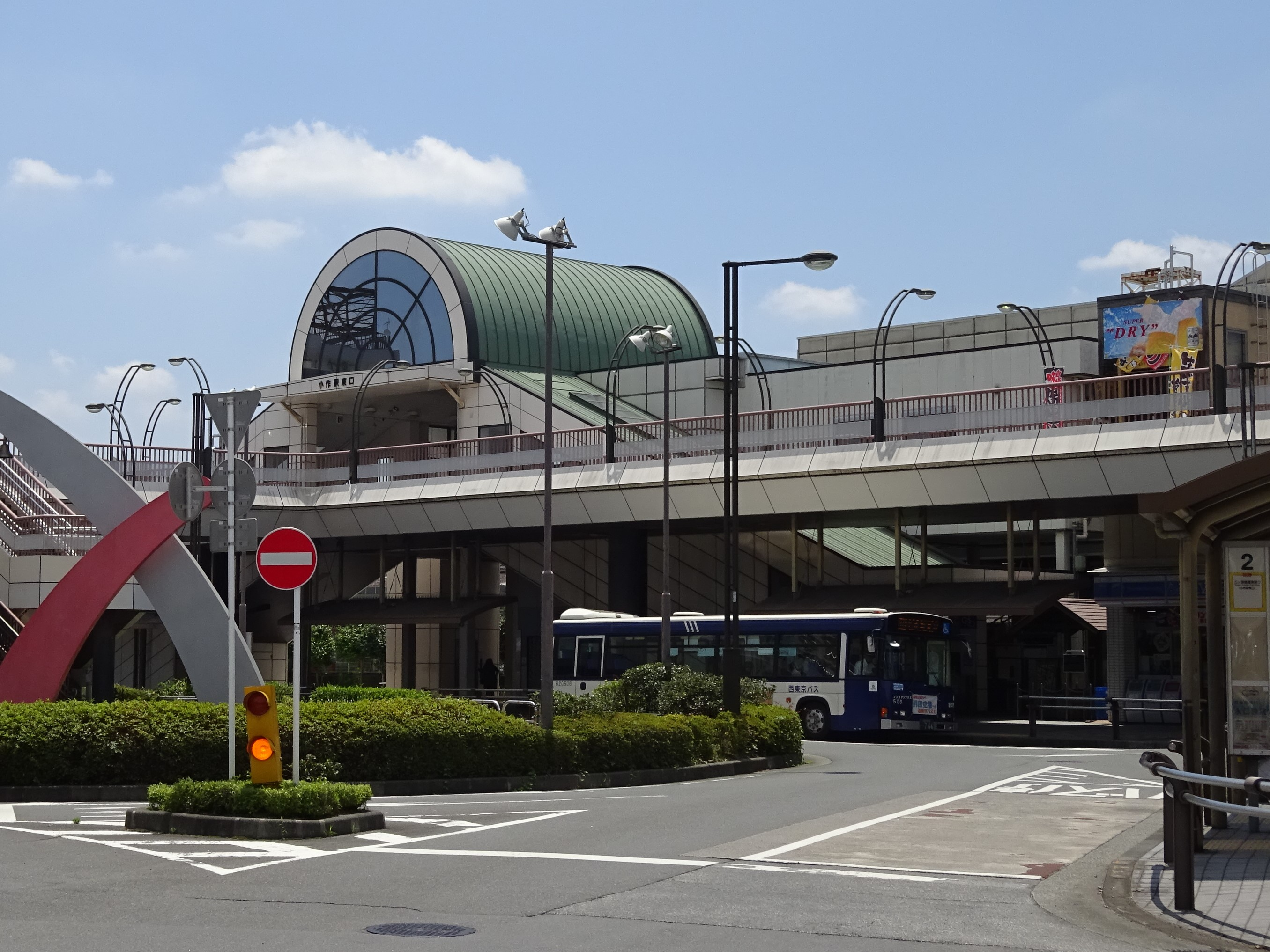 The east entrance to Ozaku Station in Tokyo, Japan